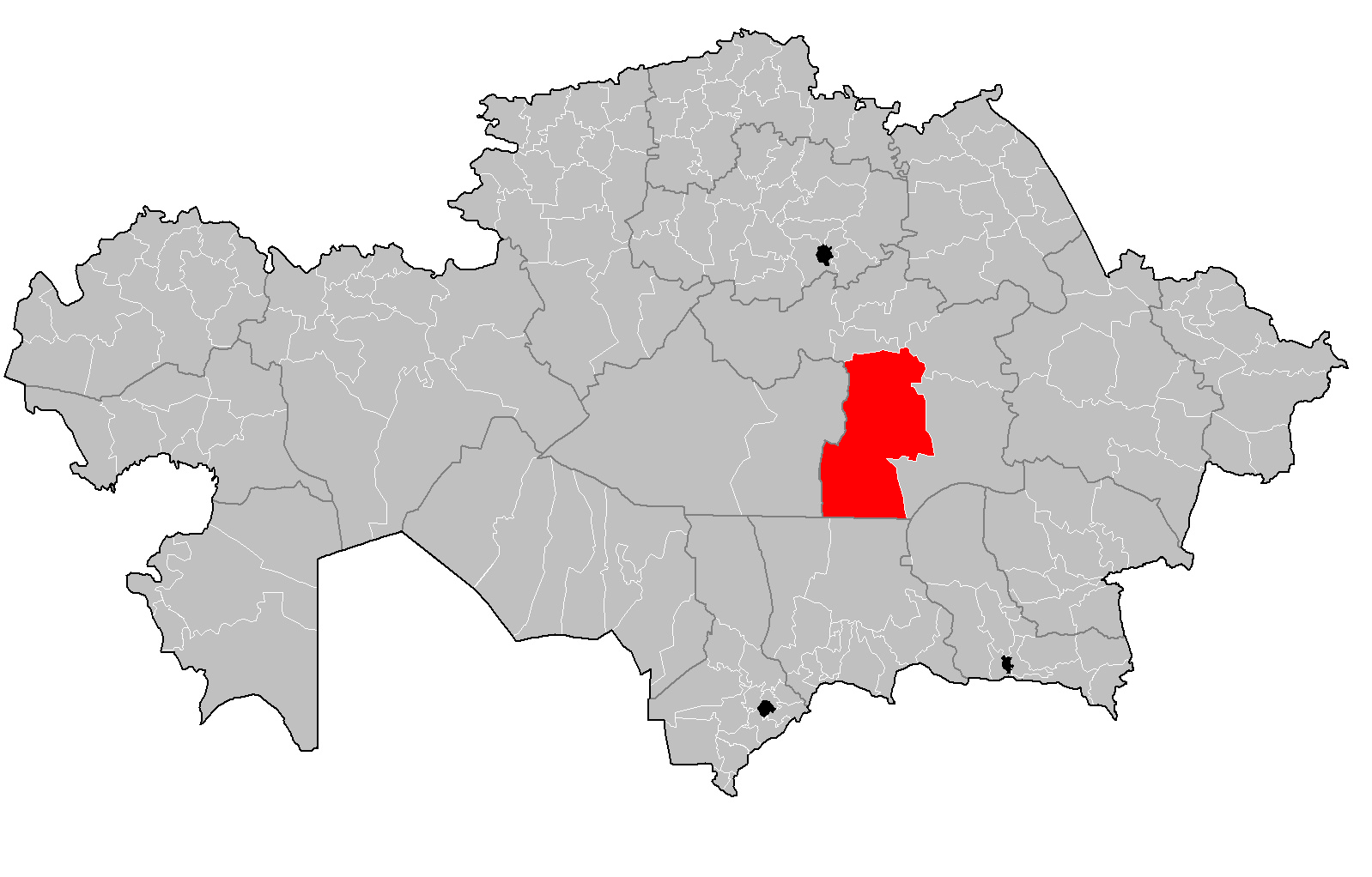 Map of the rayons of Kazakhstan. Created by Rarelibra 16:49, 3 August 2007 (UTC) for public domain use, using MapInfo Professional v8.5 and various mapping resources.